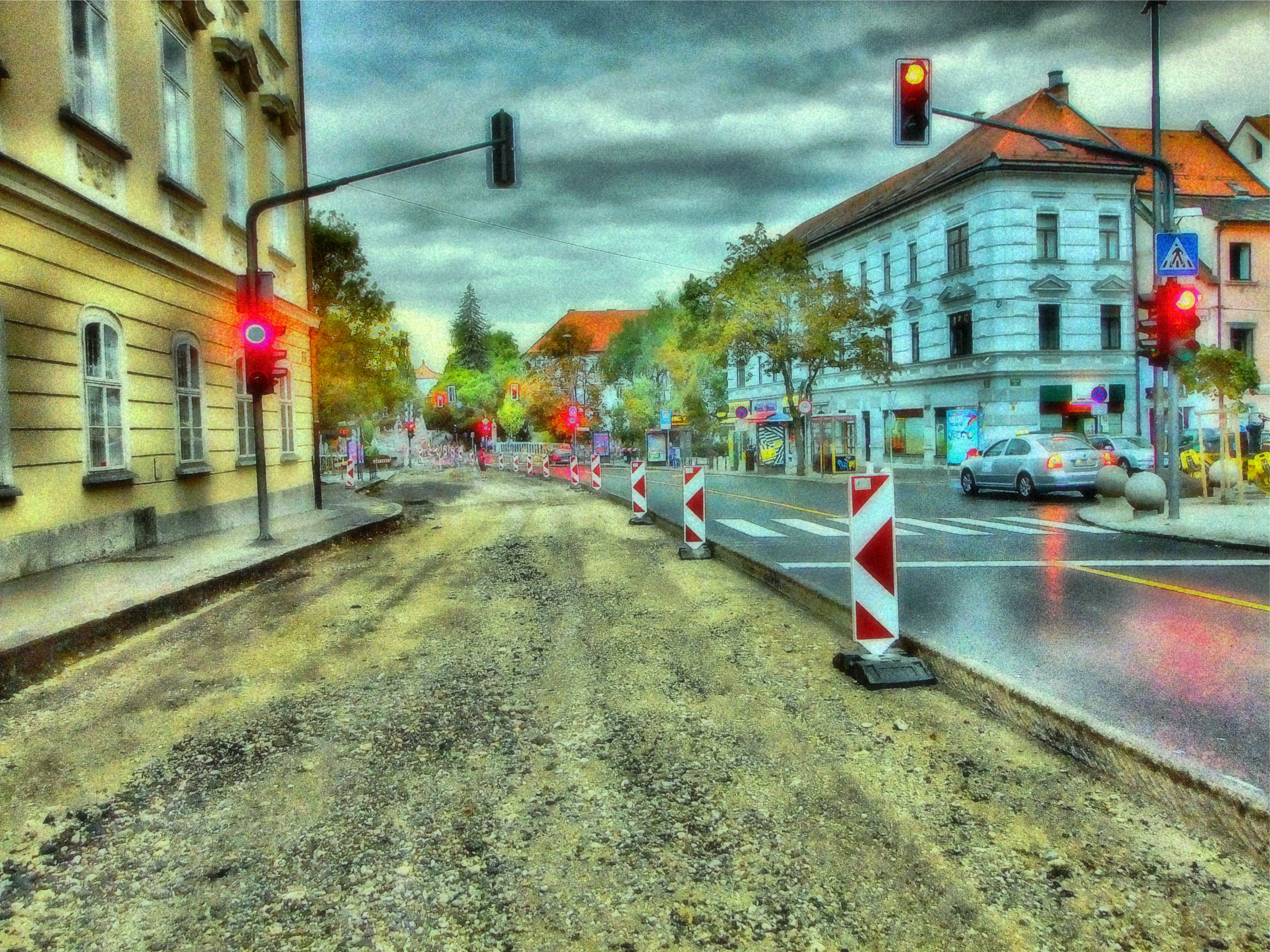 halucination of rainy day